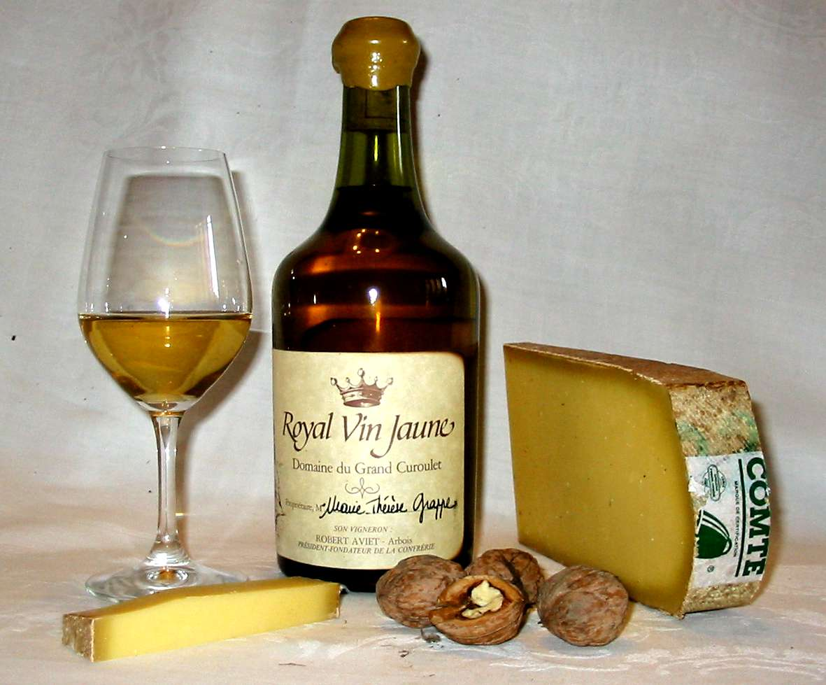 Vin Jaune ("yellow wine") of Jura, France and Franche Comté cheese